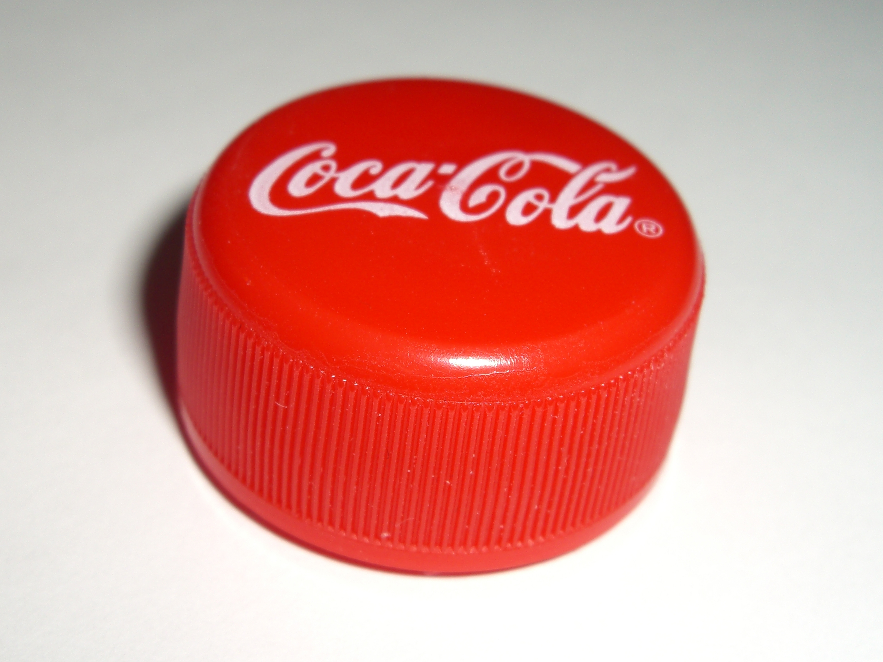 A cork from a standard Coca-Cola plastic bottle